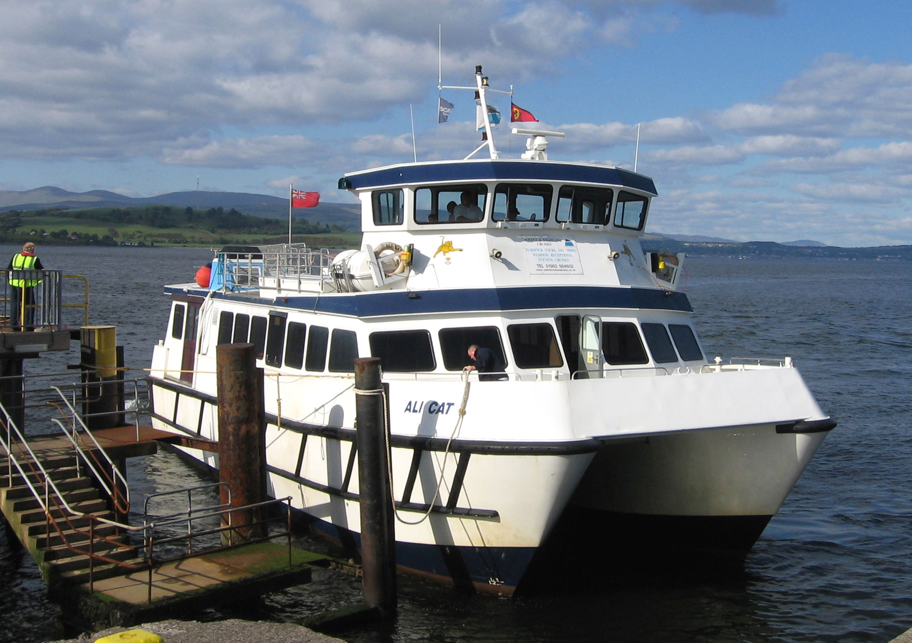 MV Ali Cat at Gourock pierhead